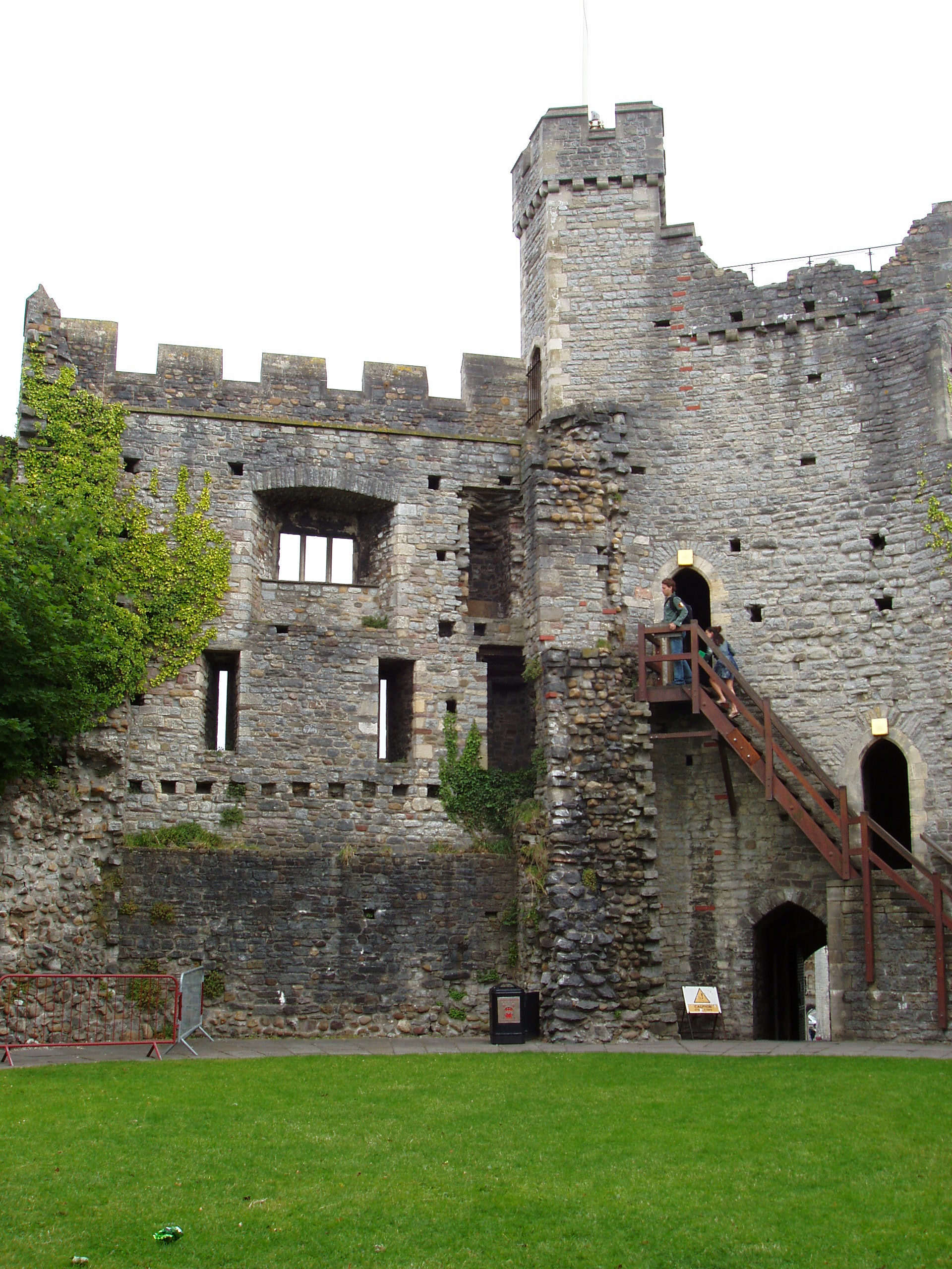 Cardiff Castle